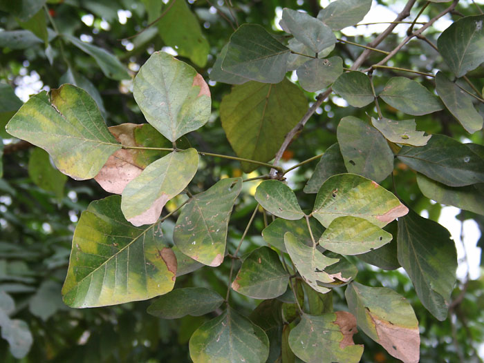 Dhak Butea monosperma in Kolkata, West Bengal, India.